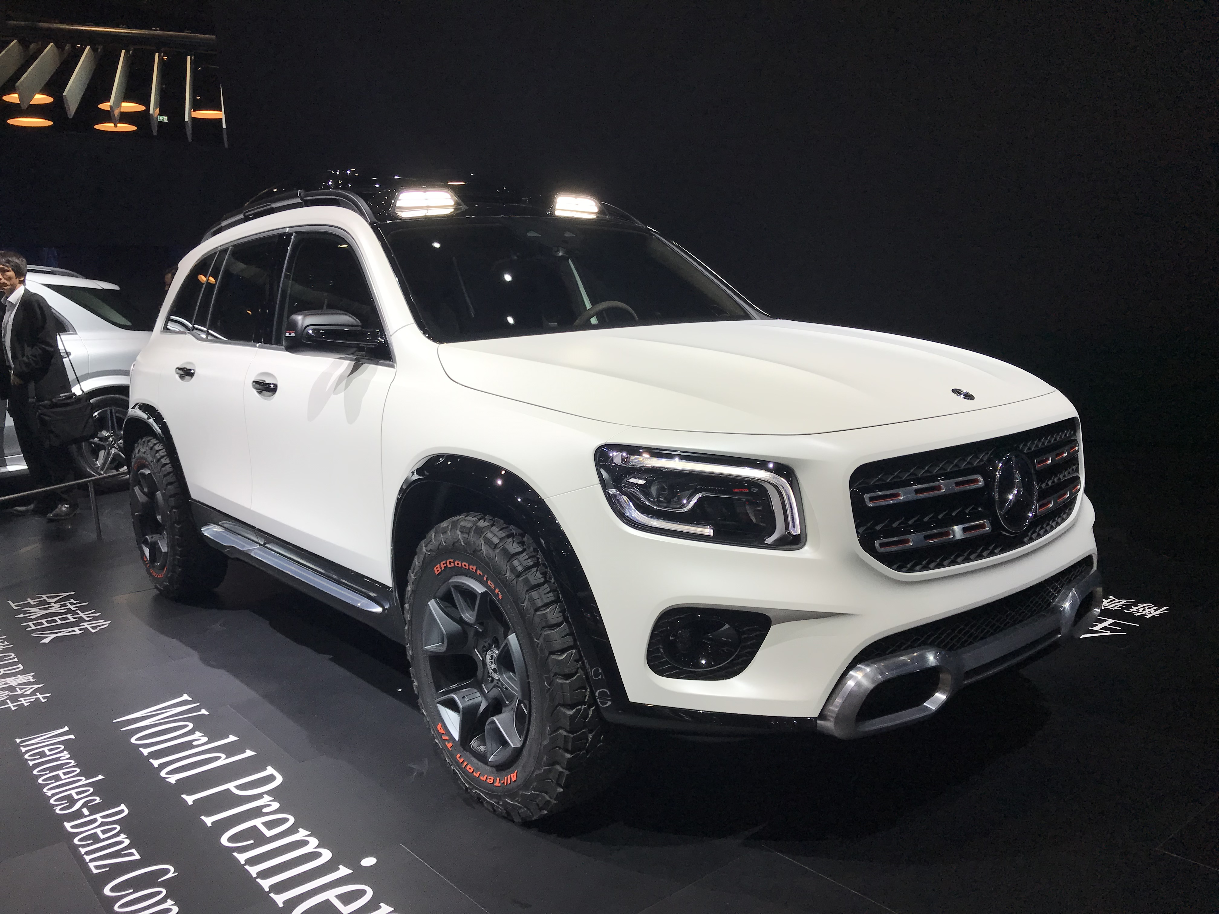 Mercedes-Benz GLB Concept